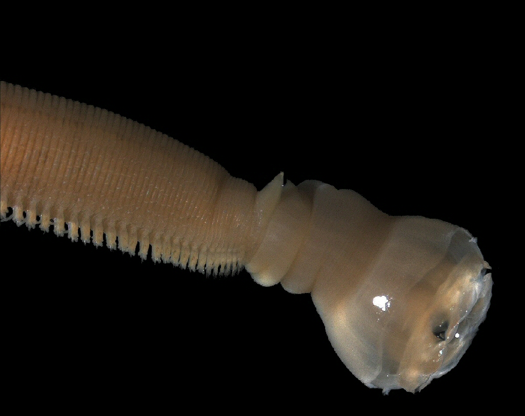 from the Belgian continental shelf.